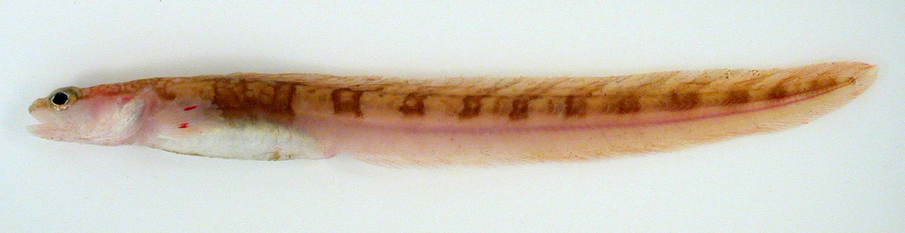 Halfbarred Pout (Gymnelus hemifasciatus), Female, Type A